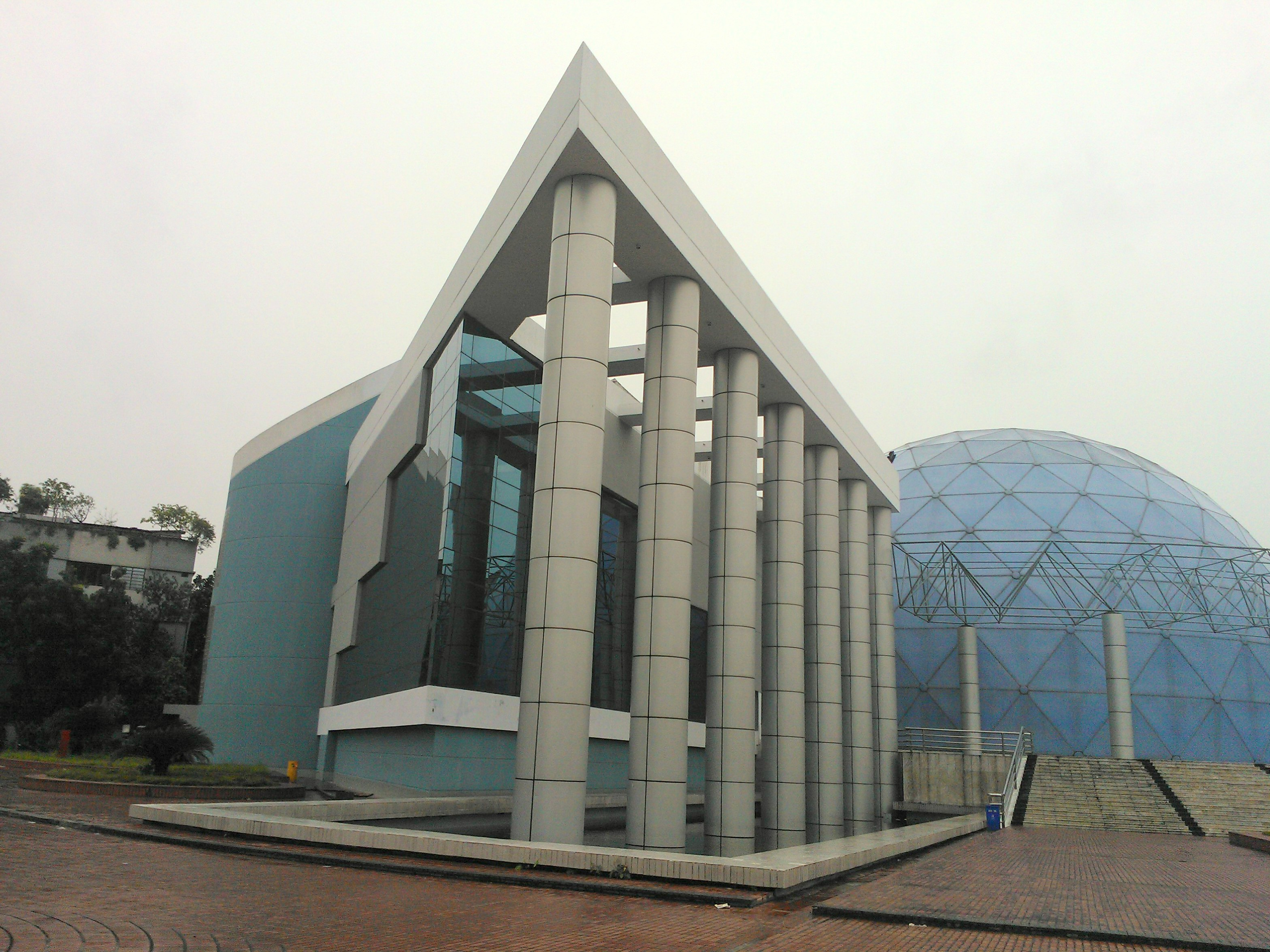 Bangabandhu Sheikh Mujibur Rahman Novo Theatre, Dhaka.